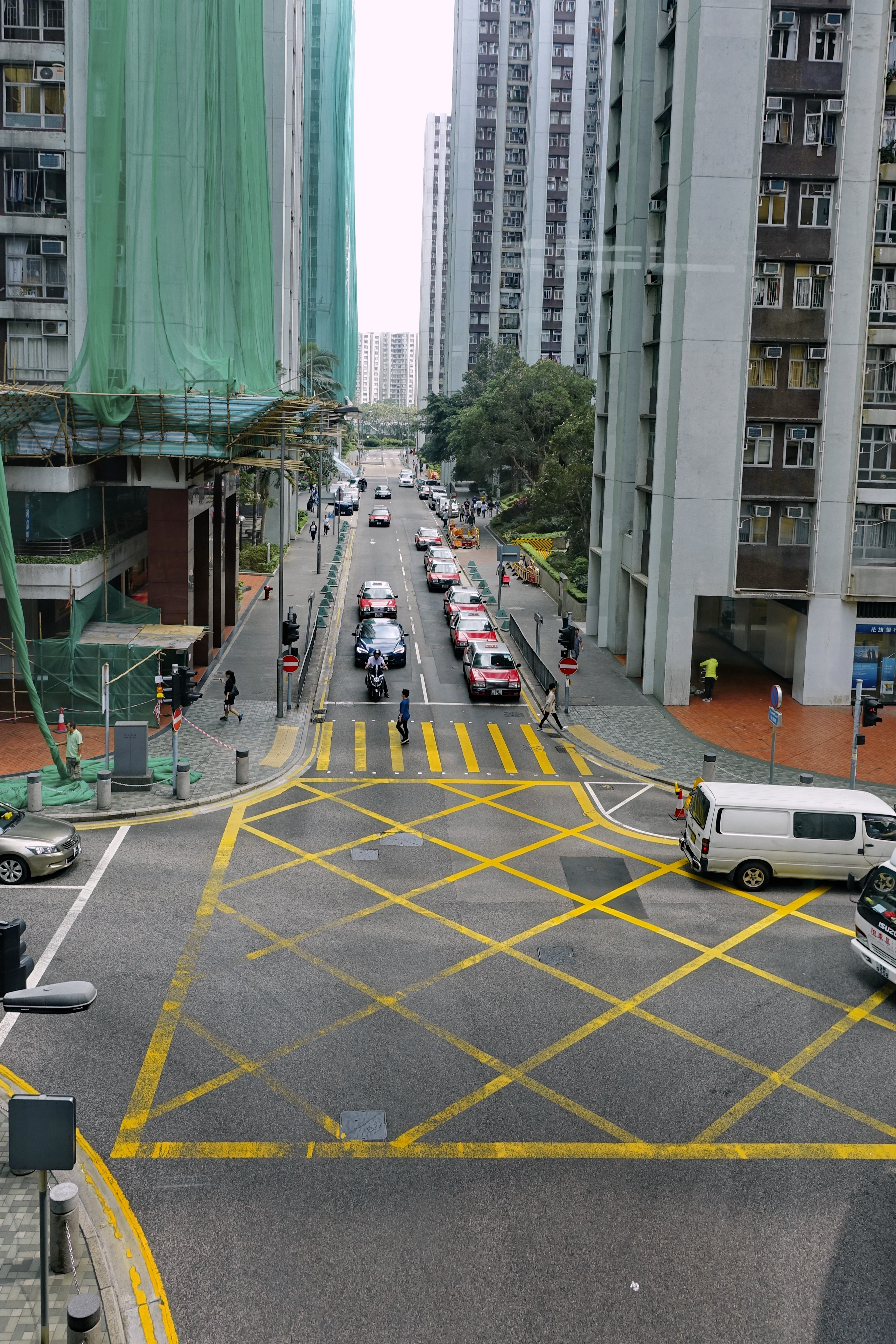 The intersection at Taikoo Shing Road and Tai Fung Avenue, Hong Kong.